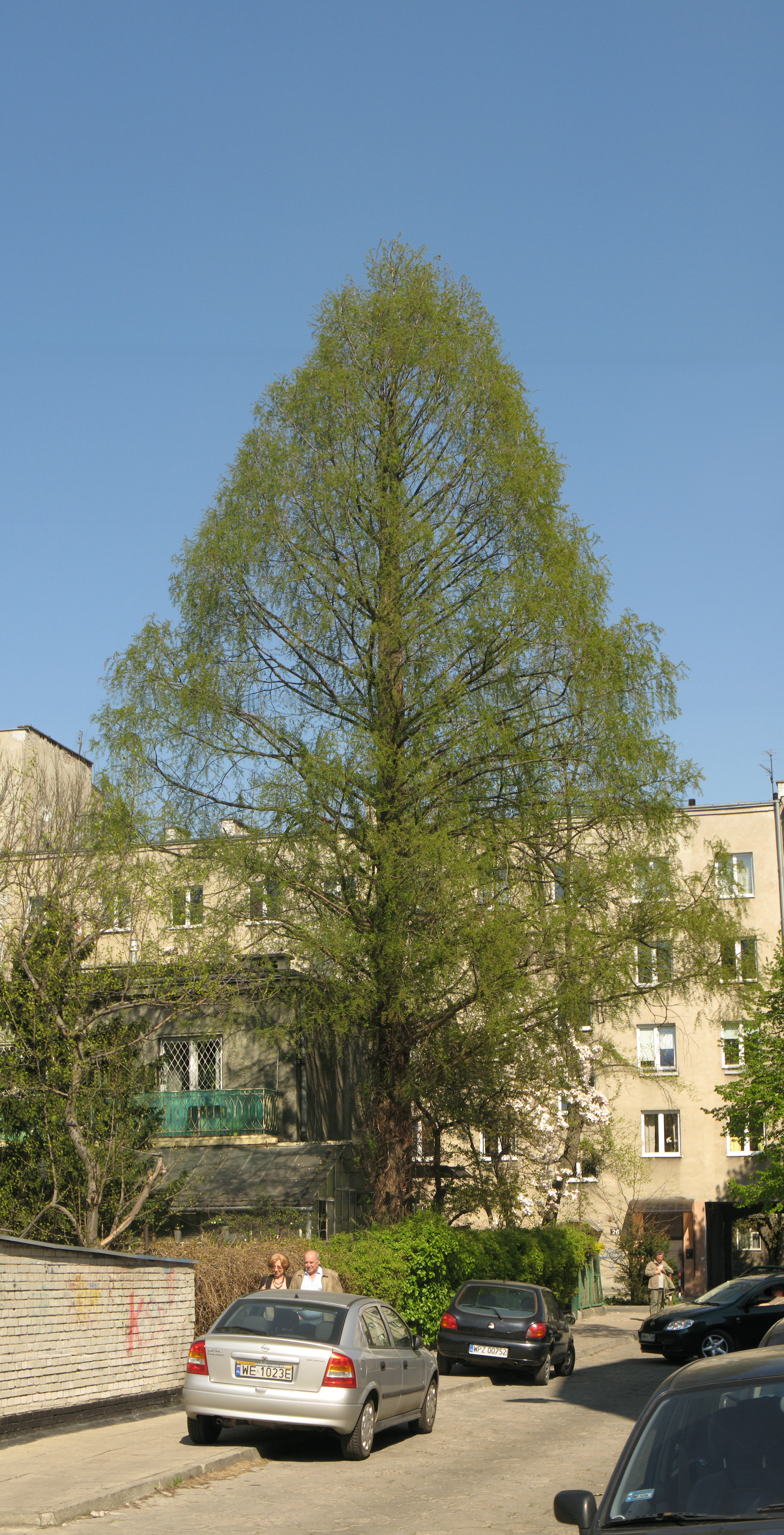 Two Metasequoia glyptostroboides natural monument, Warsaw, Adampolska Street 13, (perimeters in 2005: 154 and 153 cm) Hig Resolution image